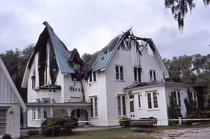 Fire damage from rear of Rose Hill Mansion - 1987. Photo by Make Cahill, Bluffton Fire Chief